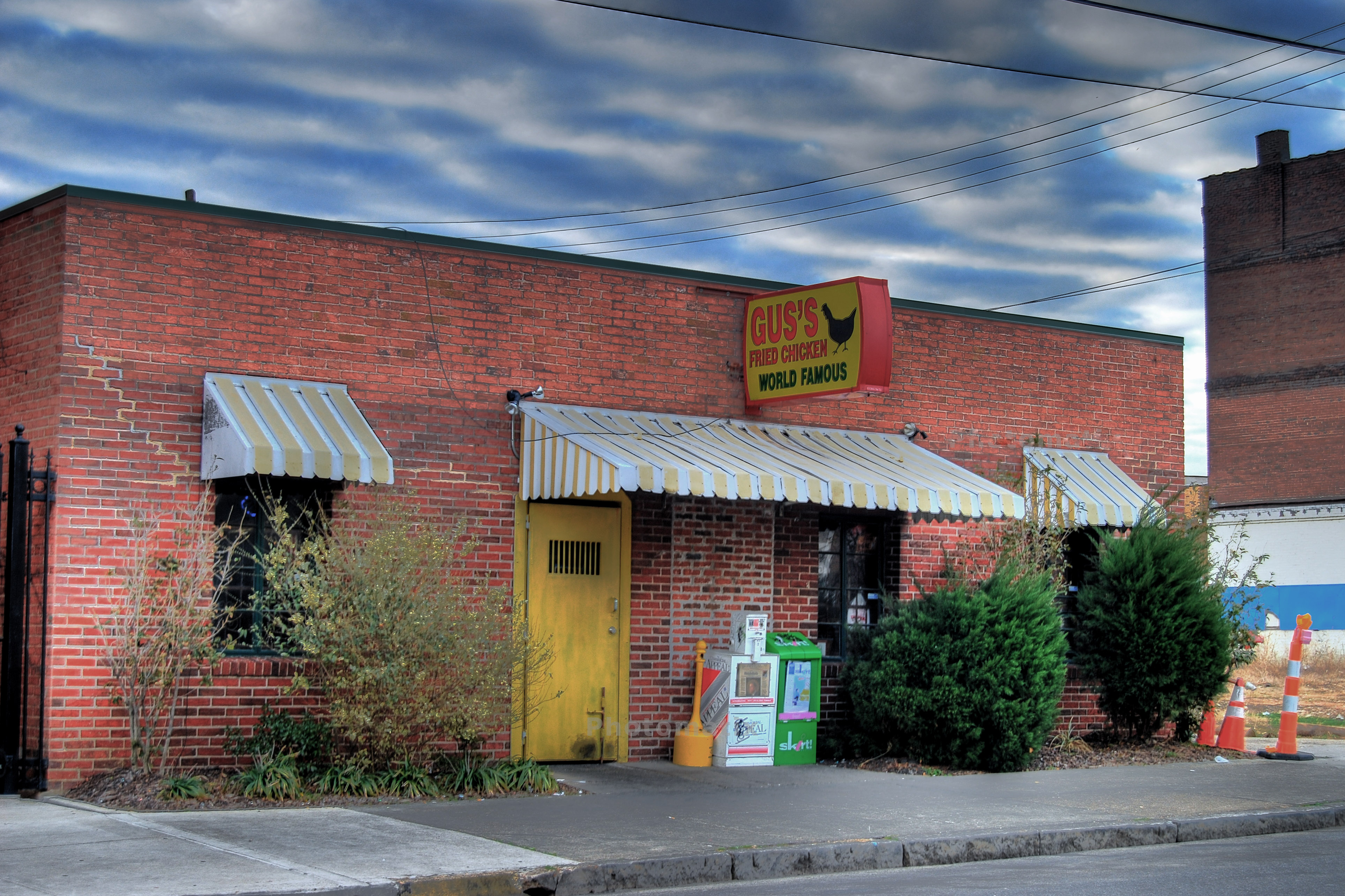 Gus' on Front Street, just south of Beale Street, downtown Memphis.